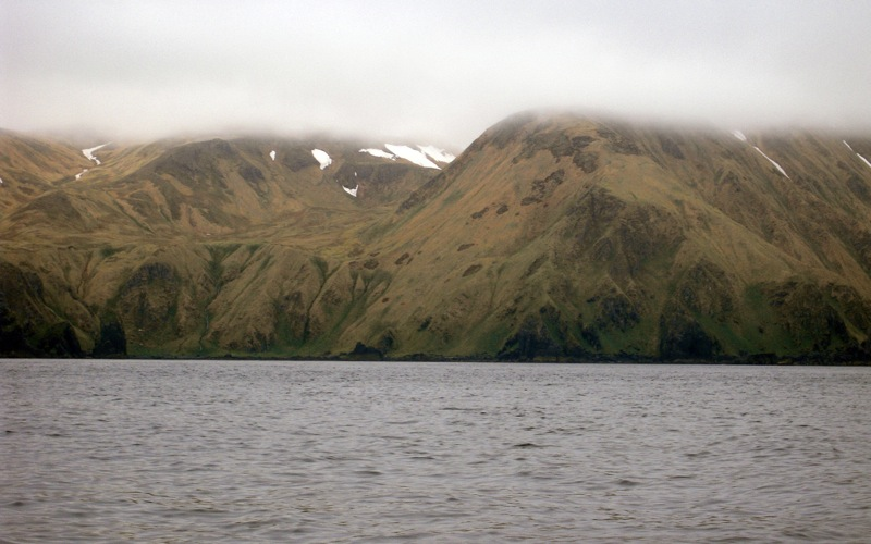 Amatignak Island coming into view.